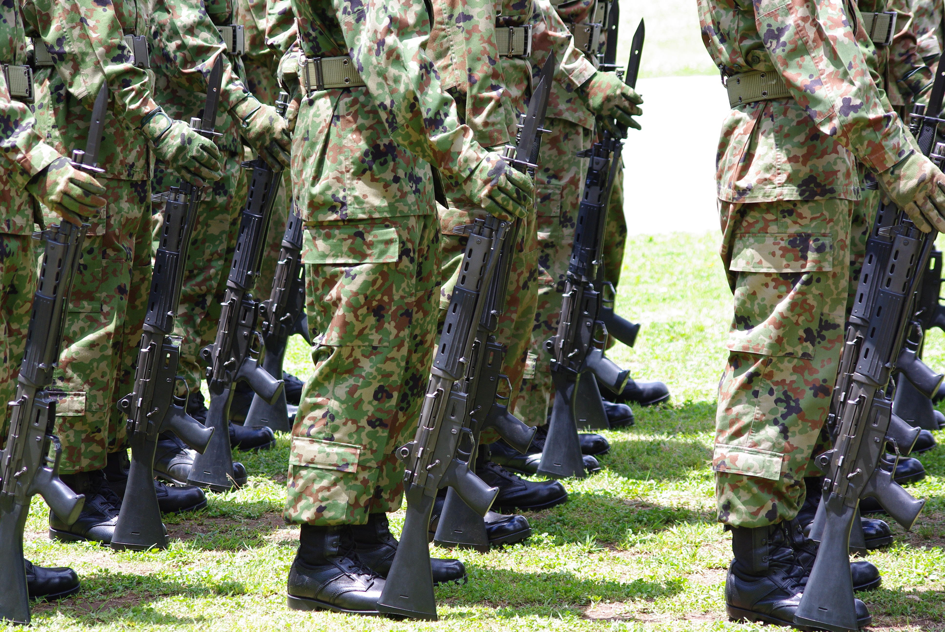 JGSDF Type 89 Rifle,32nd Infantry Regiment.Taken by Los688,in Camp Omiya,Japan,at 10-Jun-2012.PD-self 陸上自衛隊 89式小銃、第32普通科連隊。2012年06月10日、大宮駐屯地で撮影。